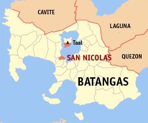 Map of Batangas showing the location of San Nicolas